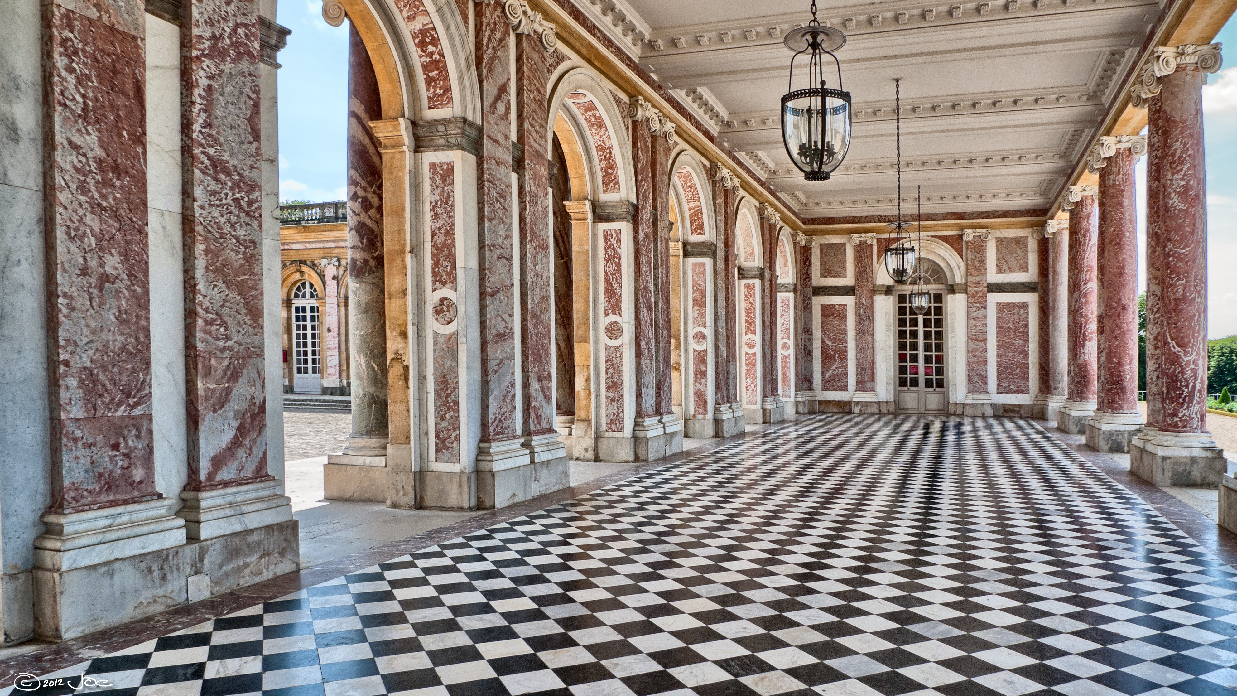 The Grand Trianon, Versailles.